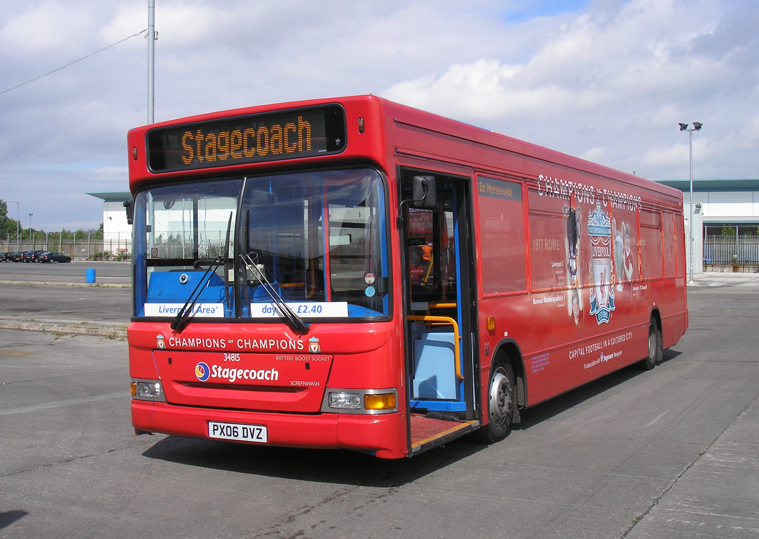 Stagecoach Merseyside bus 34815 (reg. PX06 DVZ), a 2006 Alexander Dennis Dart midibus with Alexander Dennis Pointer bodywork, pictured at the company's Gillmoss depot in Liverpool. It's wearing a promotional Champions of Champions all-over livery, celebrating Liverpool football club's record in European football. It features images and facts from the club's 5 successful European Cup victories of 1977, 1978, 1981, 1984 and 2005. It was one of two such buses, the other one being Stagecoach North West bus 16335 (reg. VLT 255) (as seen on 11 July 2007). Pictured on 18 June 2007, the buses were to be officially launched at the club's ground, Anfield, on 20 June 2007. Showcasing the livery, 34815 was to operate across Merseyside while 16335 was to operate on the X2 route between Liverpool, Southport and Preston. 34815 was one of the 75 buses purchased by Stagecoach for Merseyside to update the former Glenvale Transport fleet.